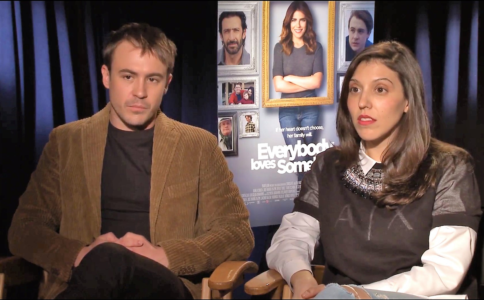 Ben O'Toole and Catalina Aguilar, actor and screenwriter/director of Everybody Loves Somebody a 2017 Mexican romantic comedy film. Interviewed on by Dulce Osuna